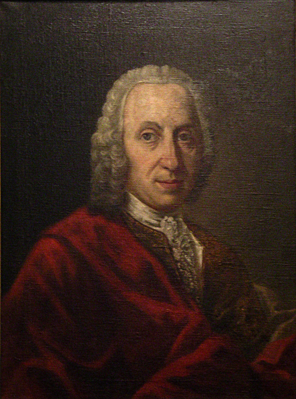 Portret of Vaclav Koberwein. President of Lviv in 1809, jeweller. photo by Oleh Petriv. 2006 Original painting in collection of Lviv History Museum.